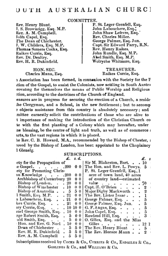 Committee and subscribers 1836